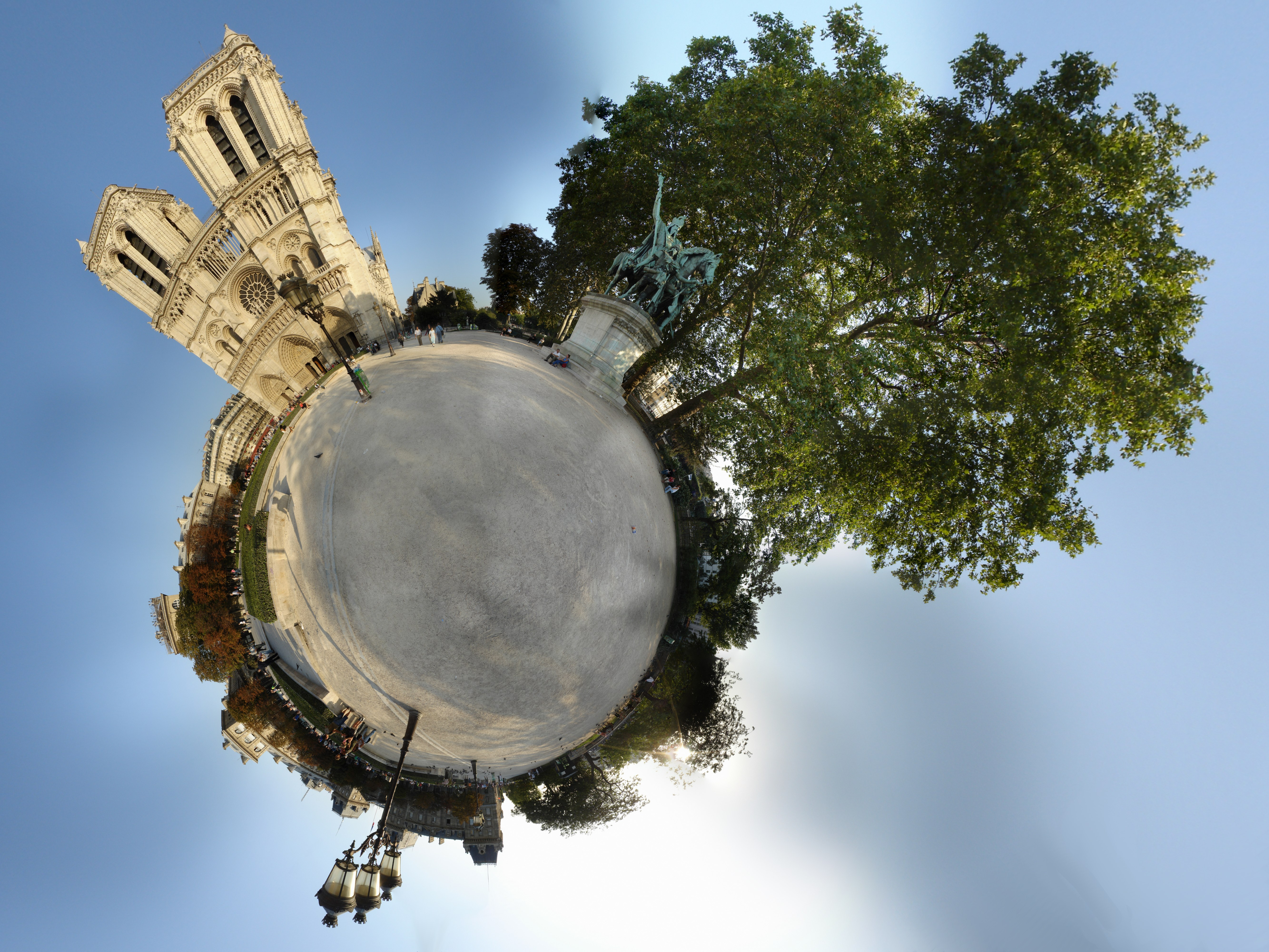 A 360 degree panorama projected into a spherical shape. Uploaded to flickr by gadl. A detailed explanation of how it is done can be found here